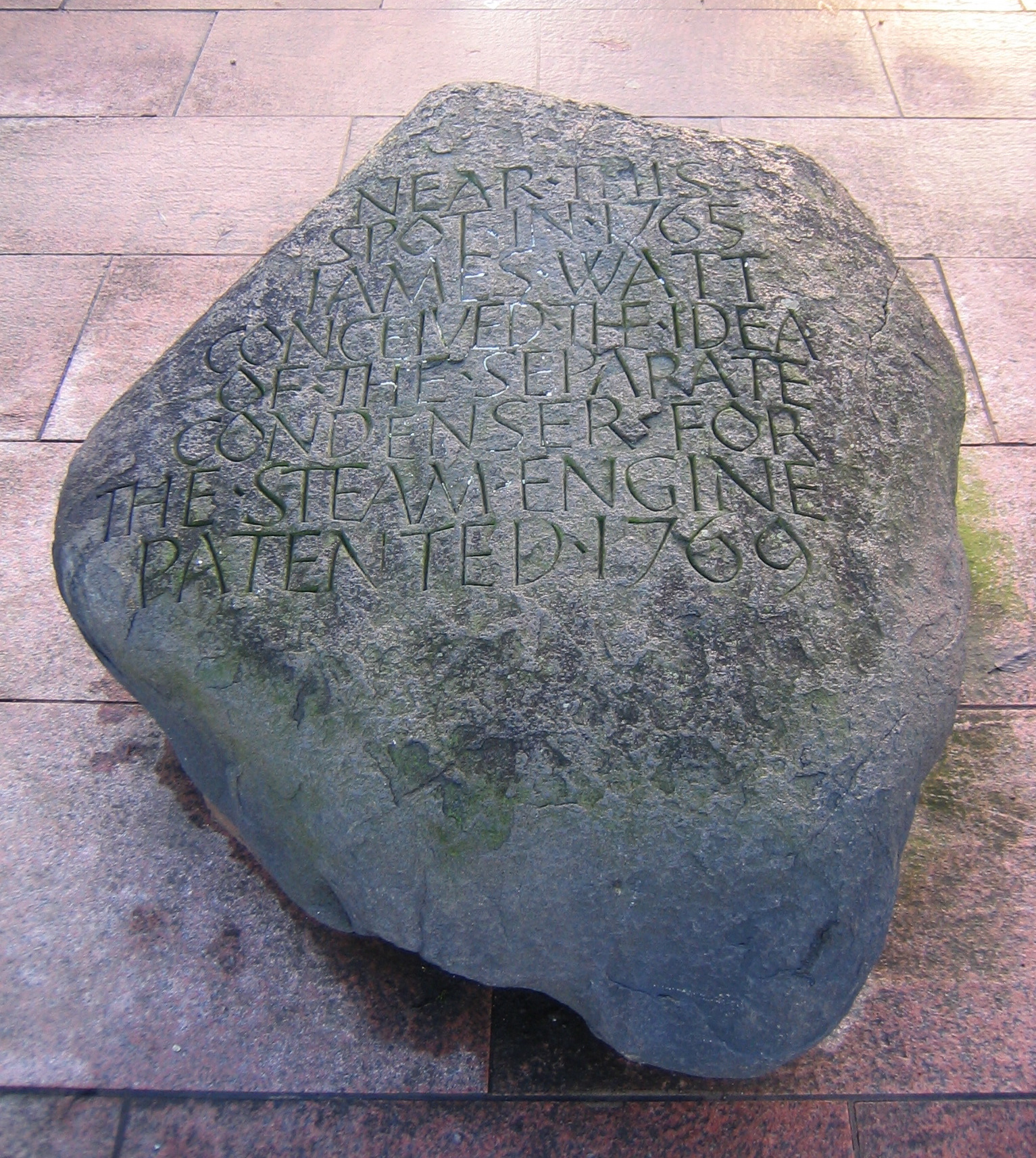 Stone marking the place that James Watt is said to have conceived the separate steam condenser, in Glasgow Green.